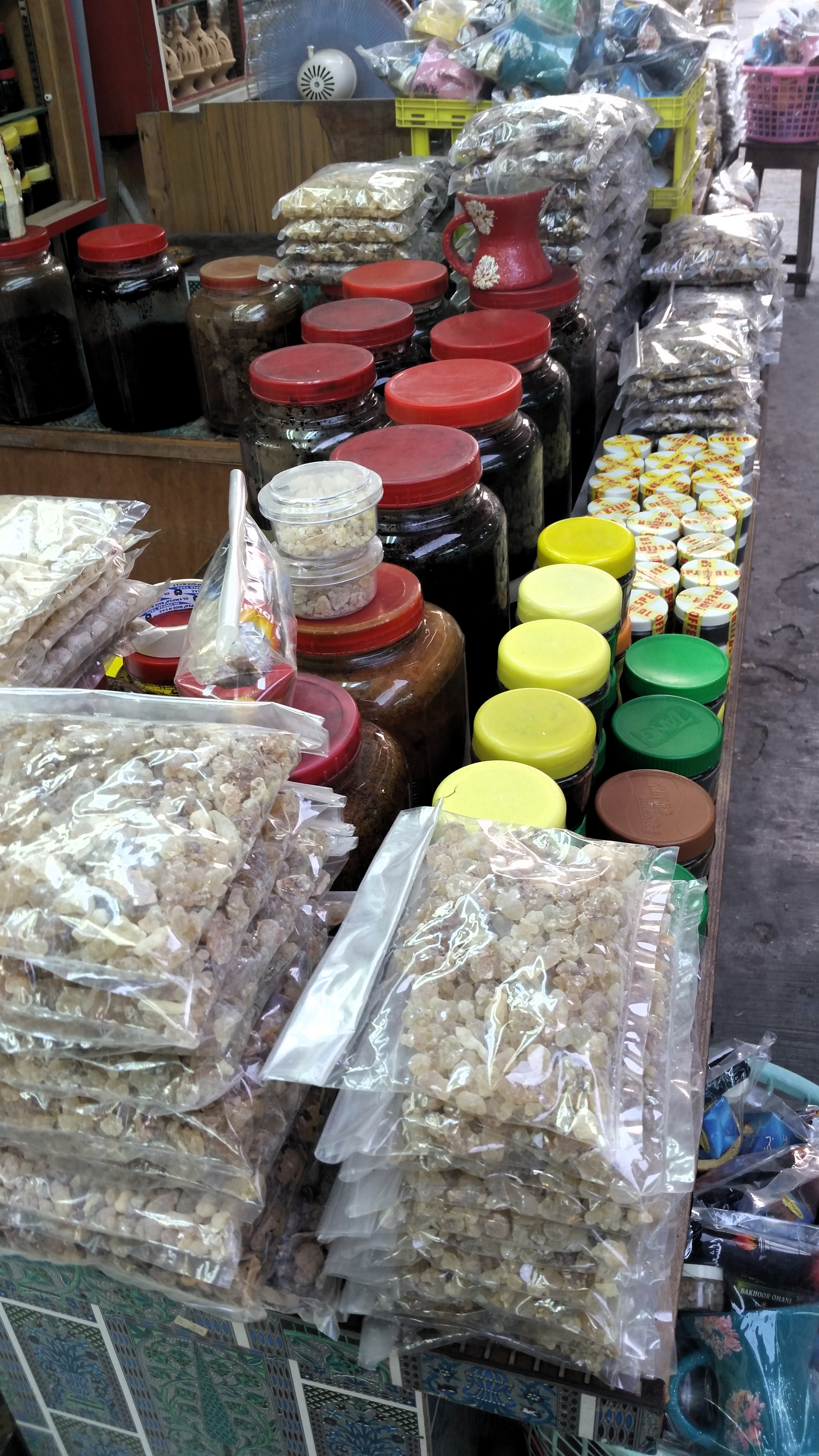 Alhusn-market-2